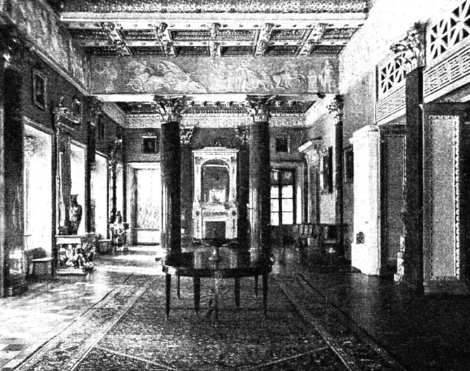 Dining Hall of nox-existing Palace in Dobosnia (Belarus)